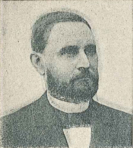 Swedish politician Carl Emil Johansson i Berga. From page 10 of an album featuring portraits of all the members of the second chamber of the Swedish parliament (Sveriges riksdag) elected in 1897.